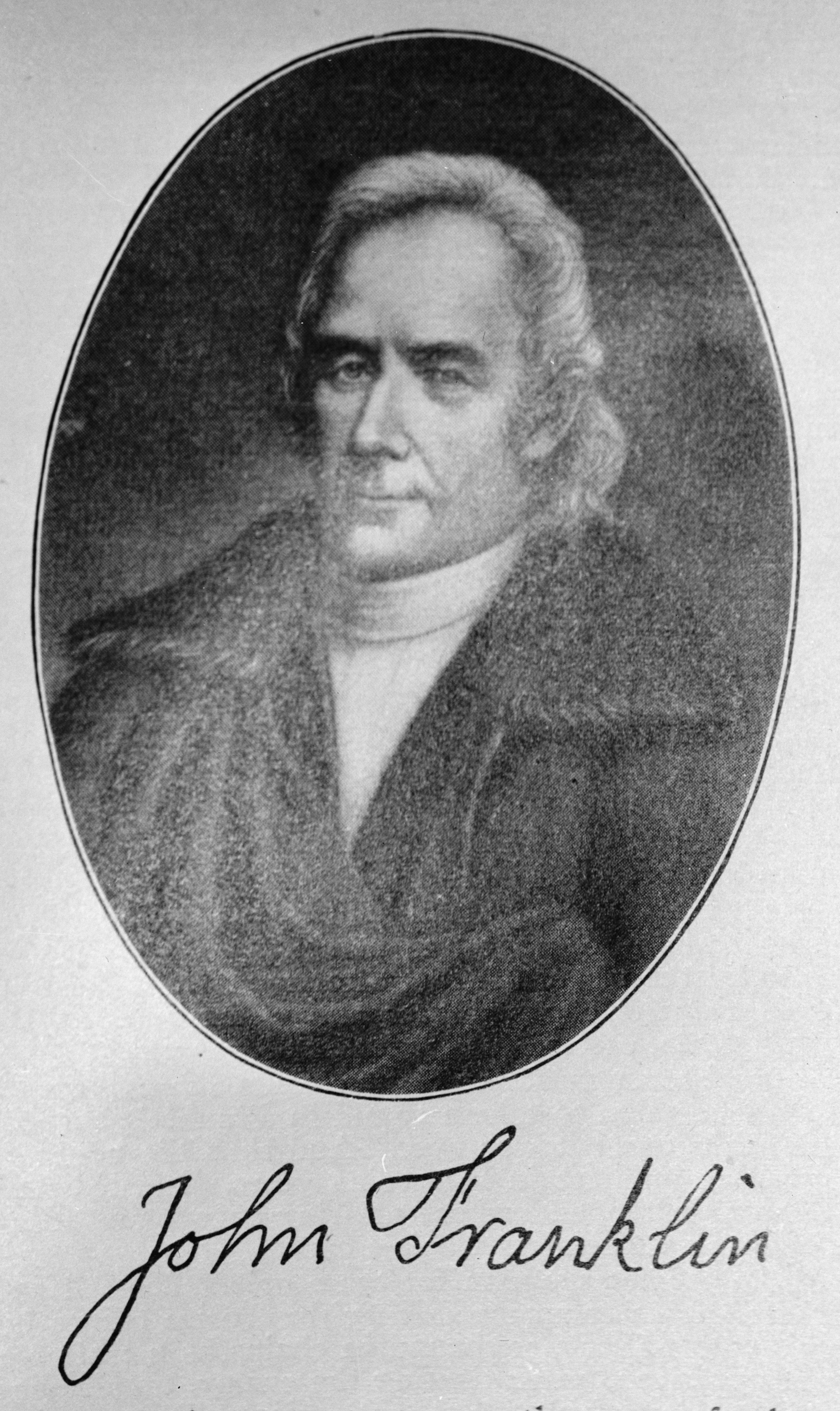 Cropped copy of our file File:Historic American Buildings Survey, Copied by Stanley Jones, Photographer April 12, 1937 COPY OF COLONEL FRANKLIN'S PORTRAIT. - Colonel John Franklin House, Athens, Bradford County, HABS PA,8- ,1-5.tif John Franklin was a settler from Connecticut who tried to colonize Pennsylvania in the late 1700s during the Pennamite Wars